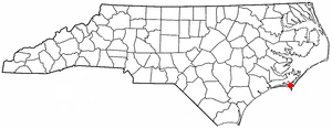 Category:North Carolina Dot Maps